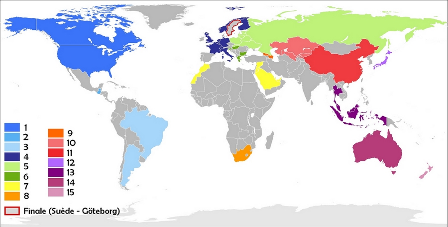 Leagues from FEI World Cup Jumping 2012/2013.